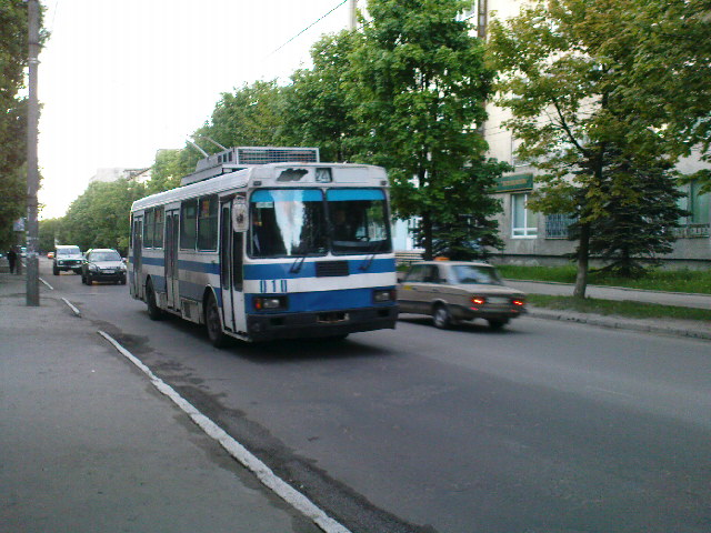 LAZ 52522 trolleybus (#010) in Lviv, Ukraine. Built 1995, ЛКП Львівелектротранс operator.